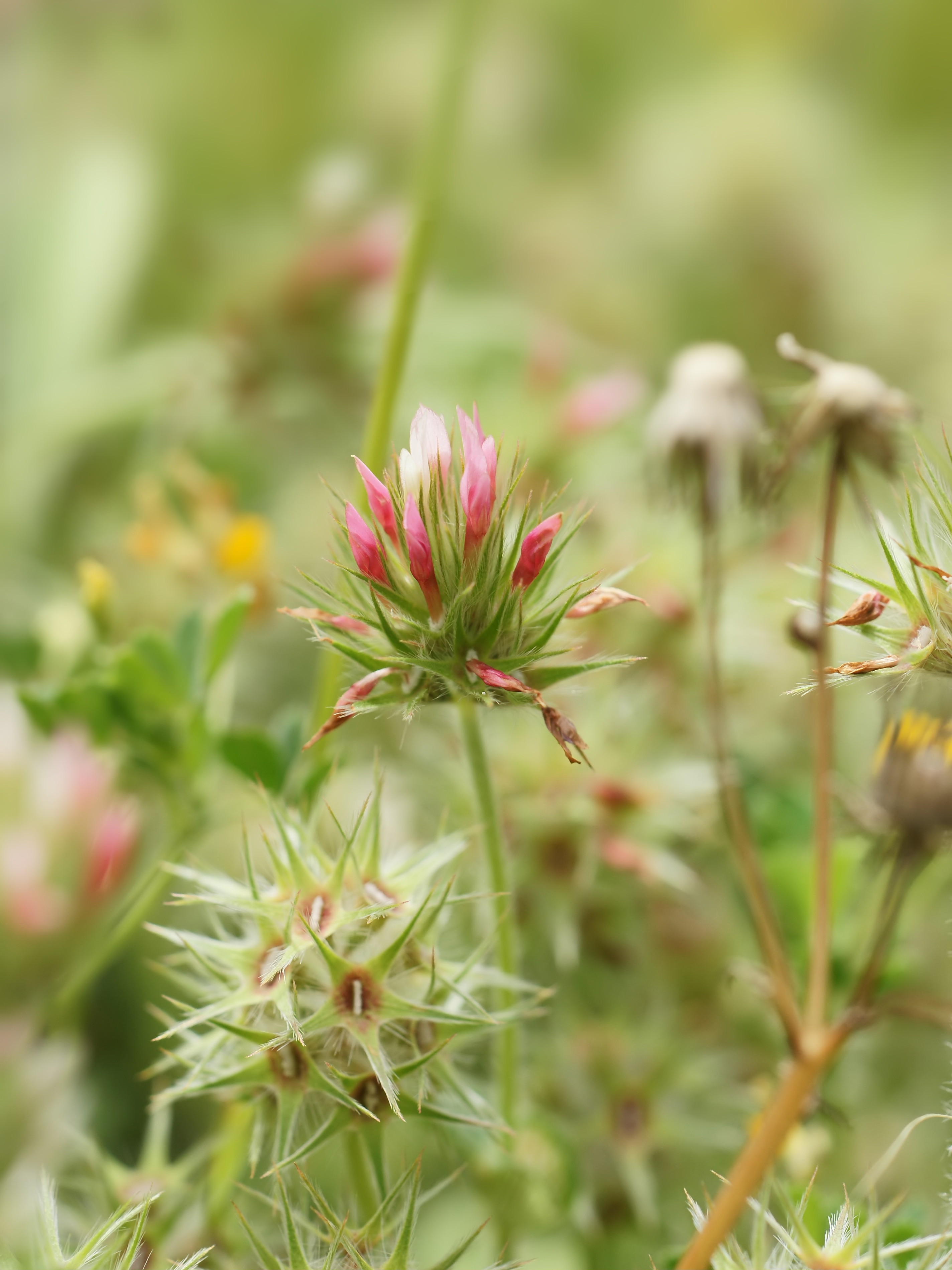 Starry Clover at Torre Grande, Sardinia, Italy.